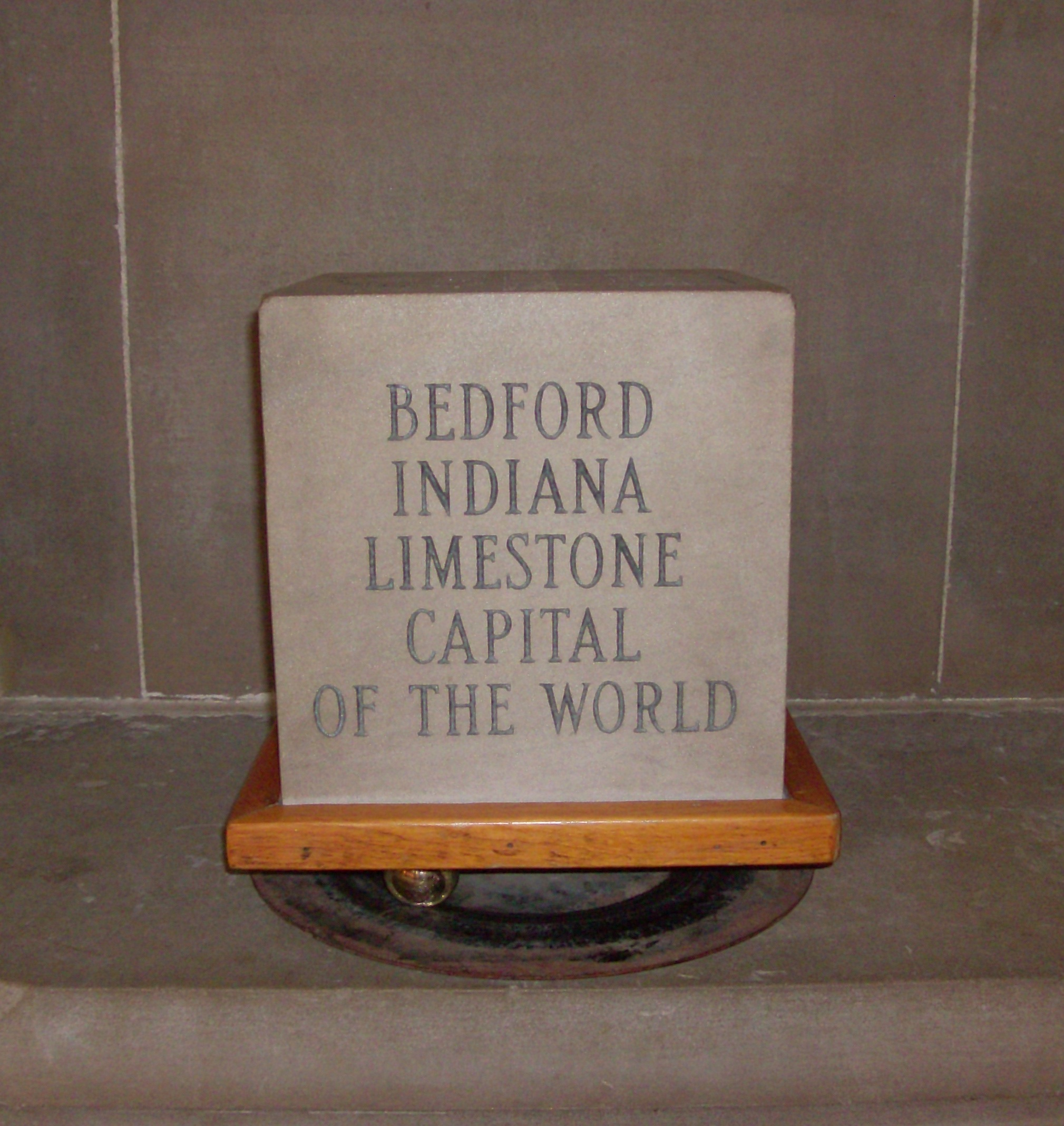 Bedford, Indiana limestone at Indiana Statehouse